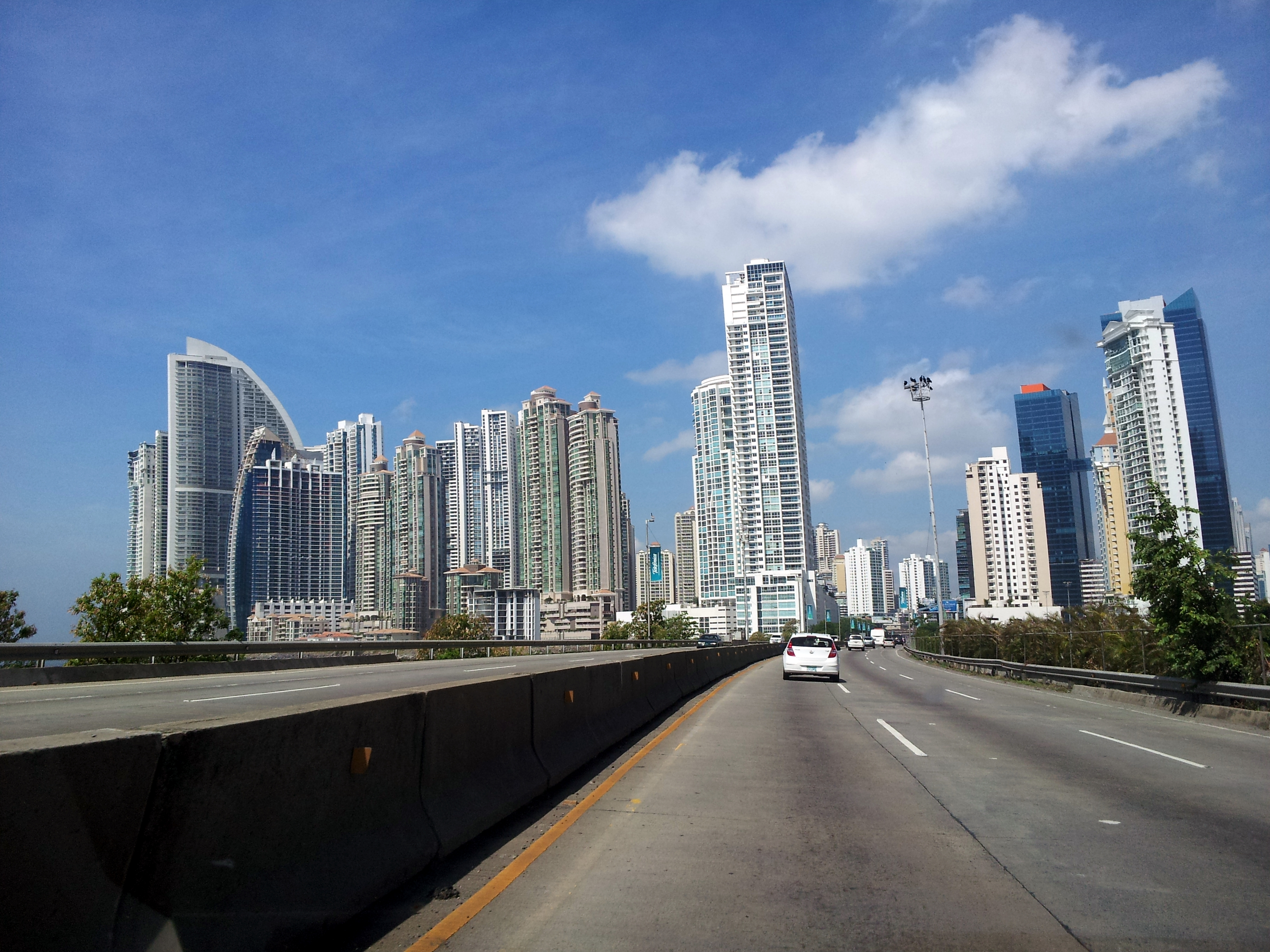 Skyline of Punta Pacifica, Panama City, view from Corredor Sur